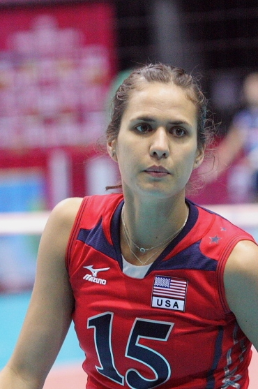 This photo was taken by me during 2011 World Grand Prix in Hong Kong, August 2011.